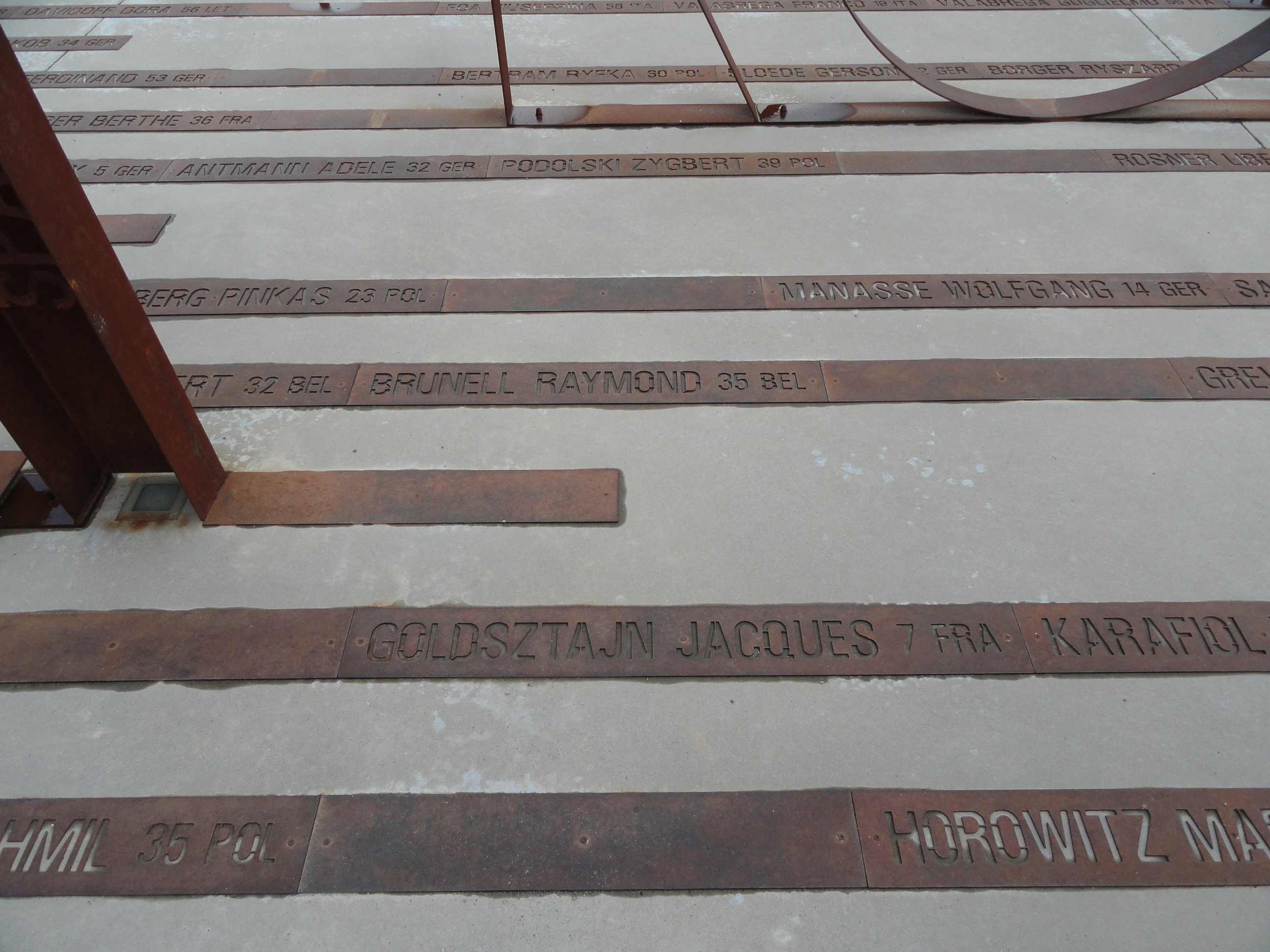 Memorial for the deportation and the Holocaust of the Jews, in Borgo San Dalmazzo (Italy). The names of the Jews killed mostly in Auschwitz are engraven on metallic strips.